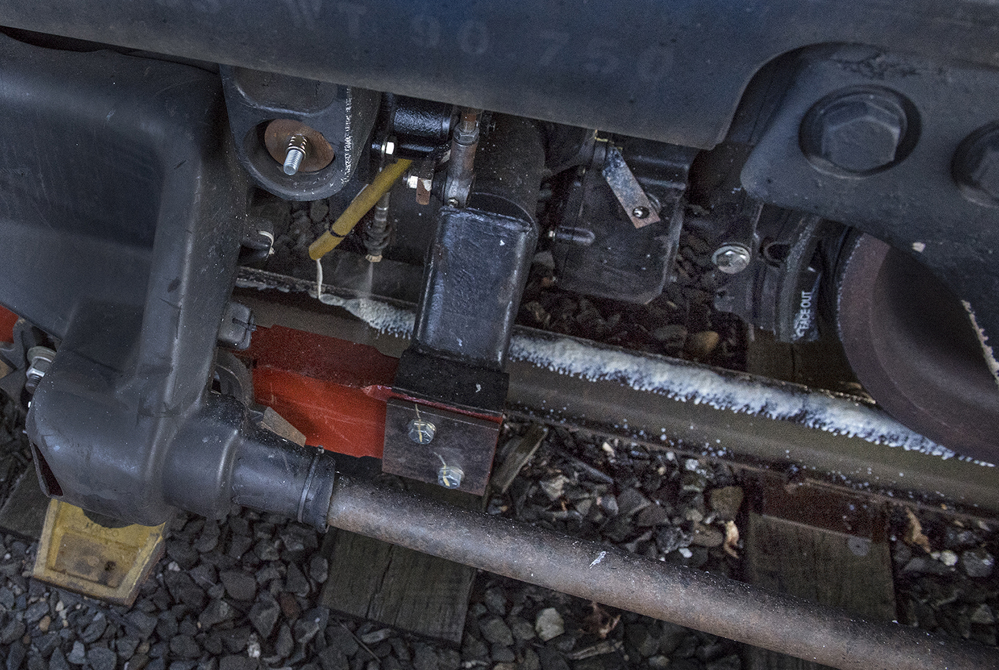 To fight autumn train delays, the Long Island Rail Road operates work train that sprays water jets to clear tracks of slimy leaf debris during the fall season. The specialized train then applies a traction gel onto the freshly cleared rails that allows train wheels to maintain traction, even in the presence of crushed leaf slime. This photo shows the application of the traction gel. Photo: Metropolitan Transportation Authority / Patrick Cashin